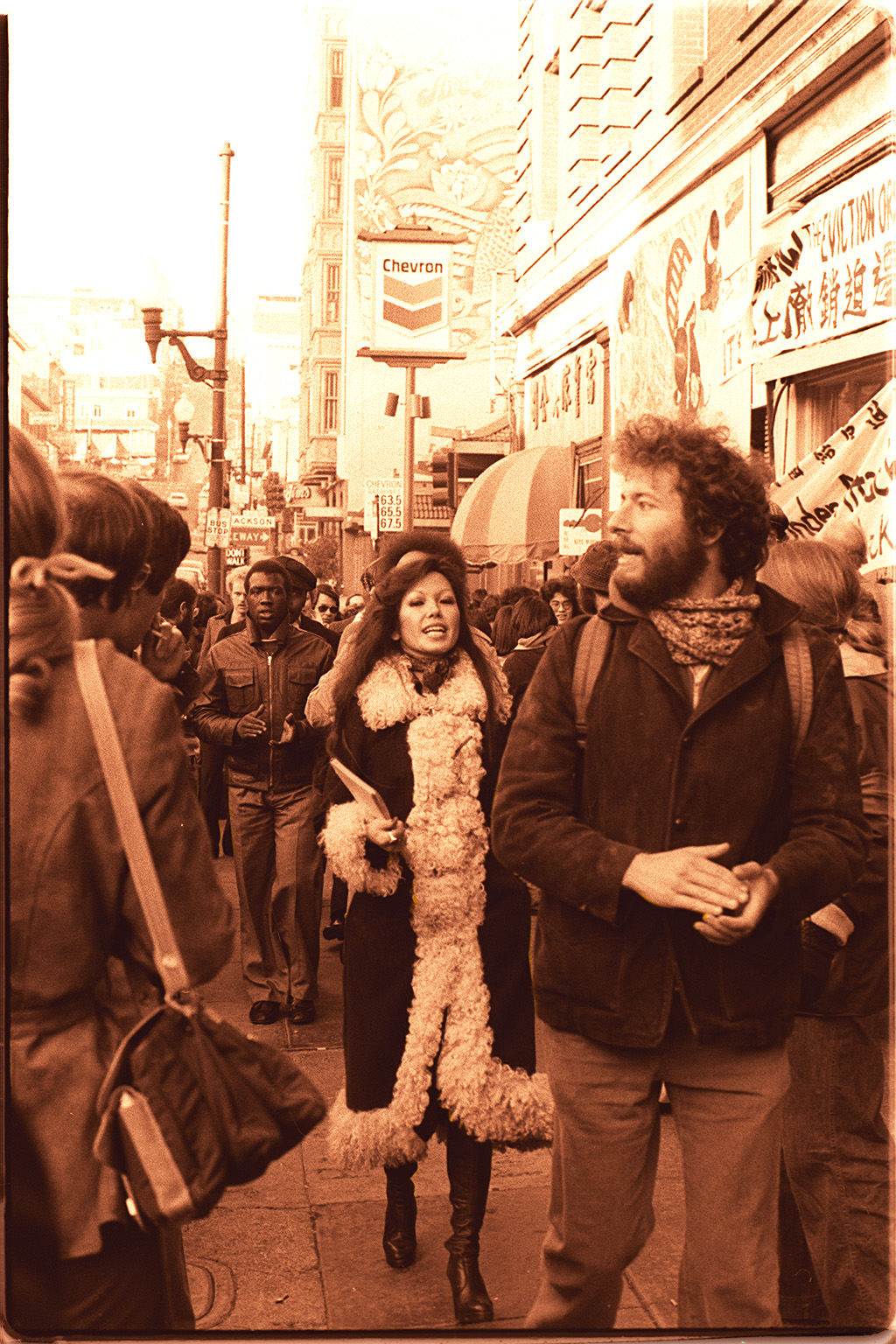 Janice Mirikitani of Glide Memorial Church joins the protest in front of the International Hotel in San Francisco, January 1977. Photo by Nancy Wong